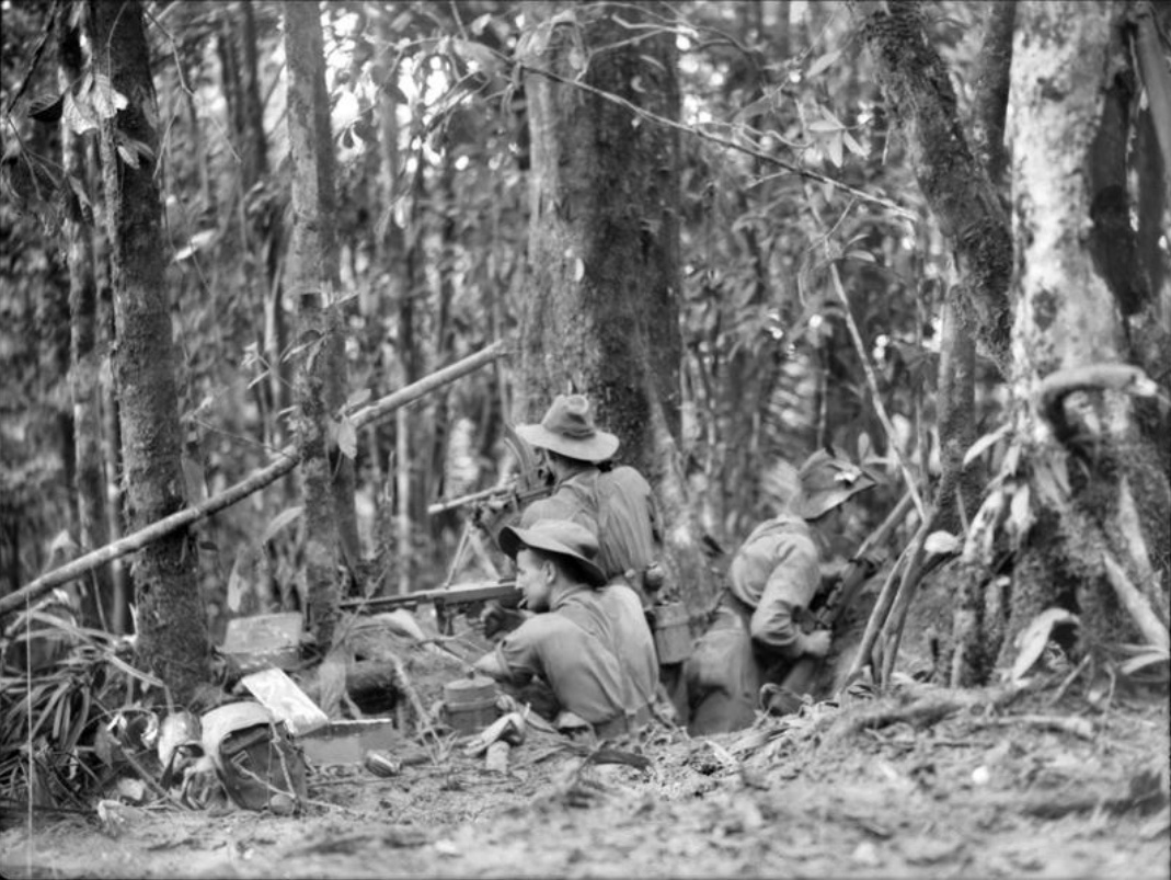 Soldiers from the Austalian 2/5th Infantry Battalion around Salamaua, New Guinea, 23 July 1943.